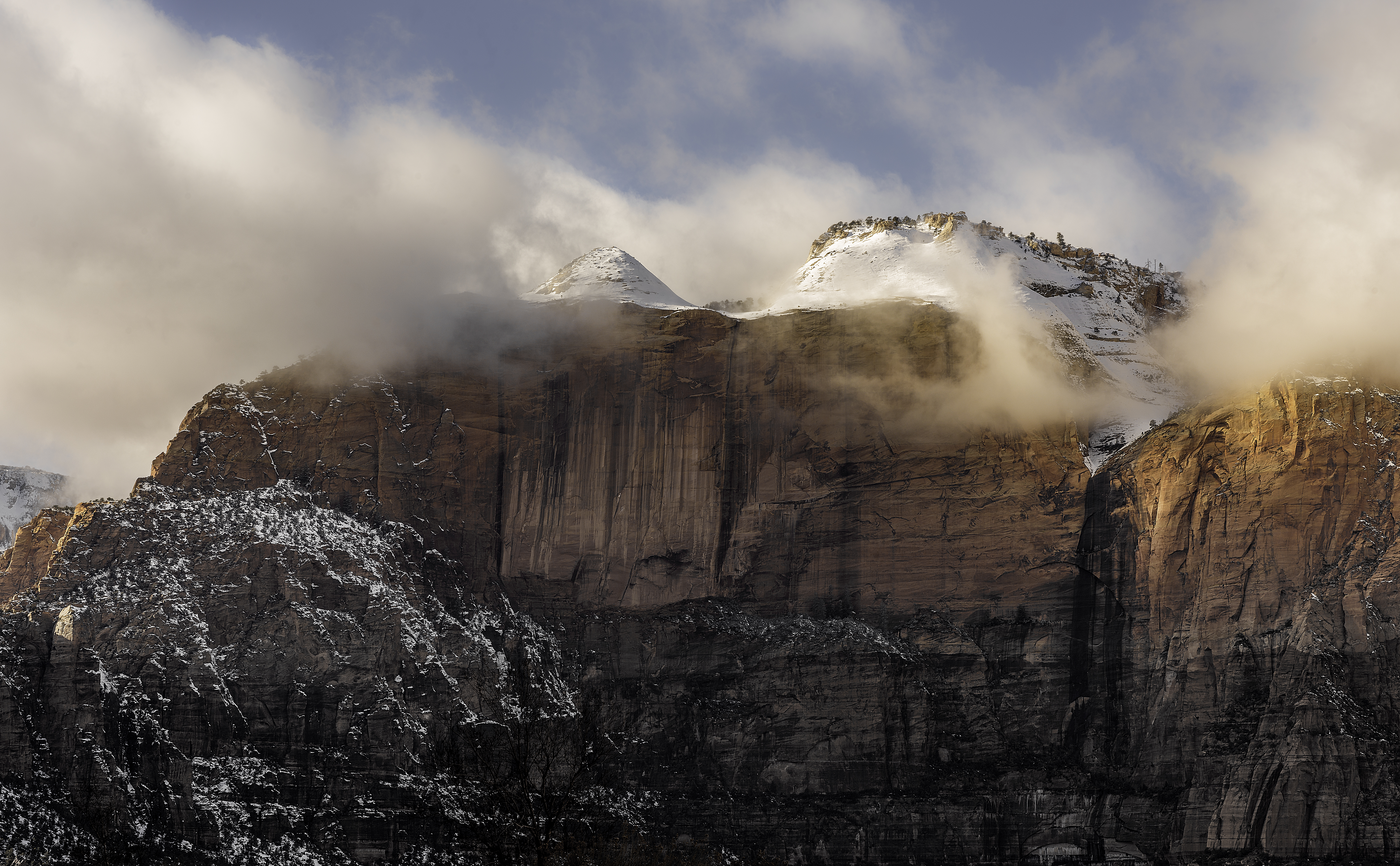 Zion National Park, United States